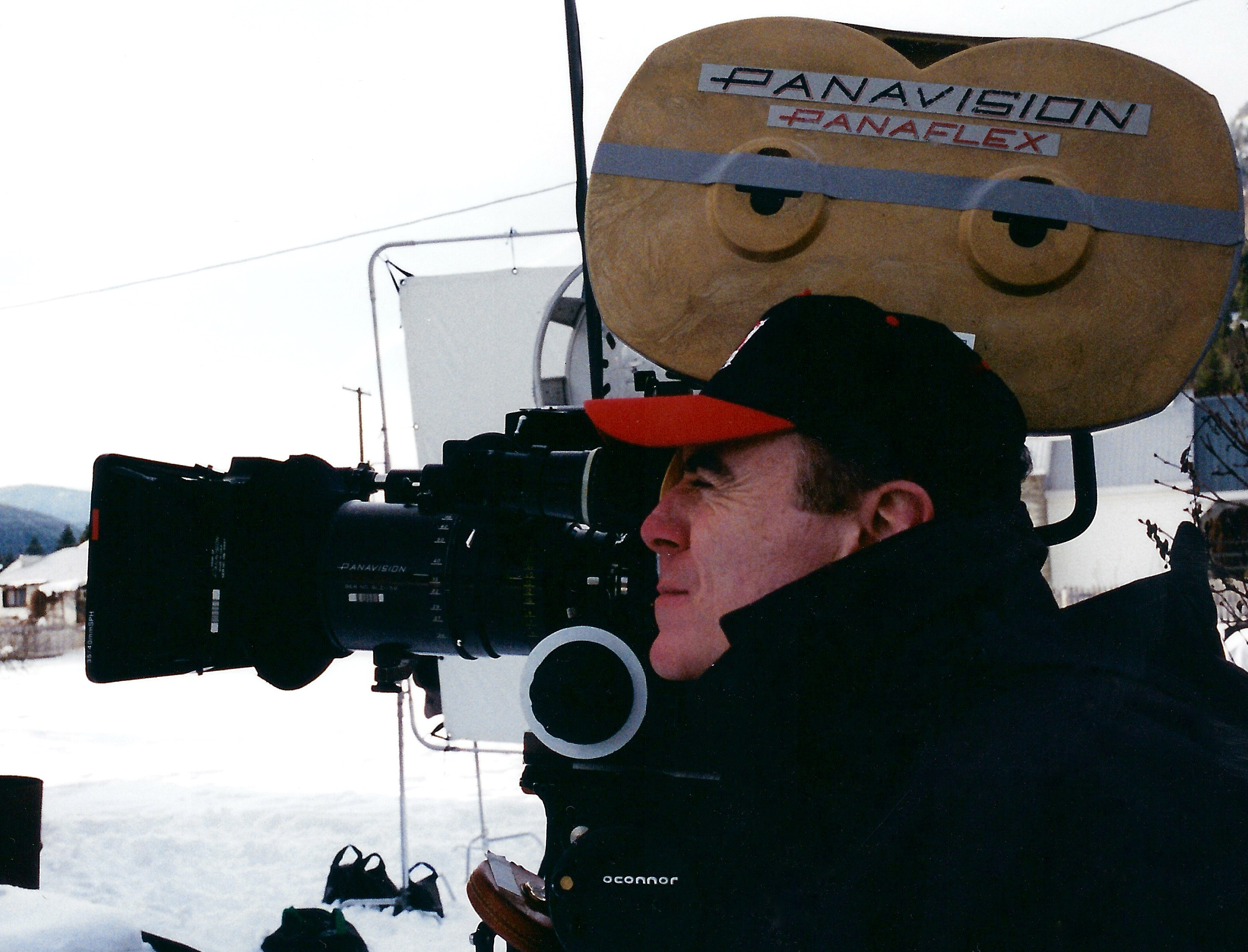 Richard Crudo, ASC, cinematographer "Out Cold" (2001)